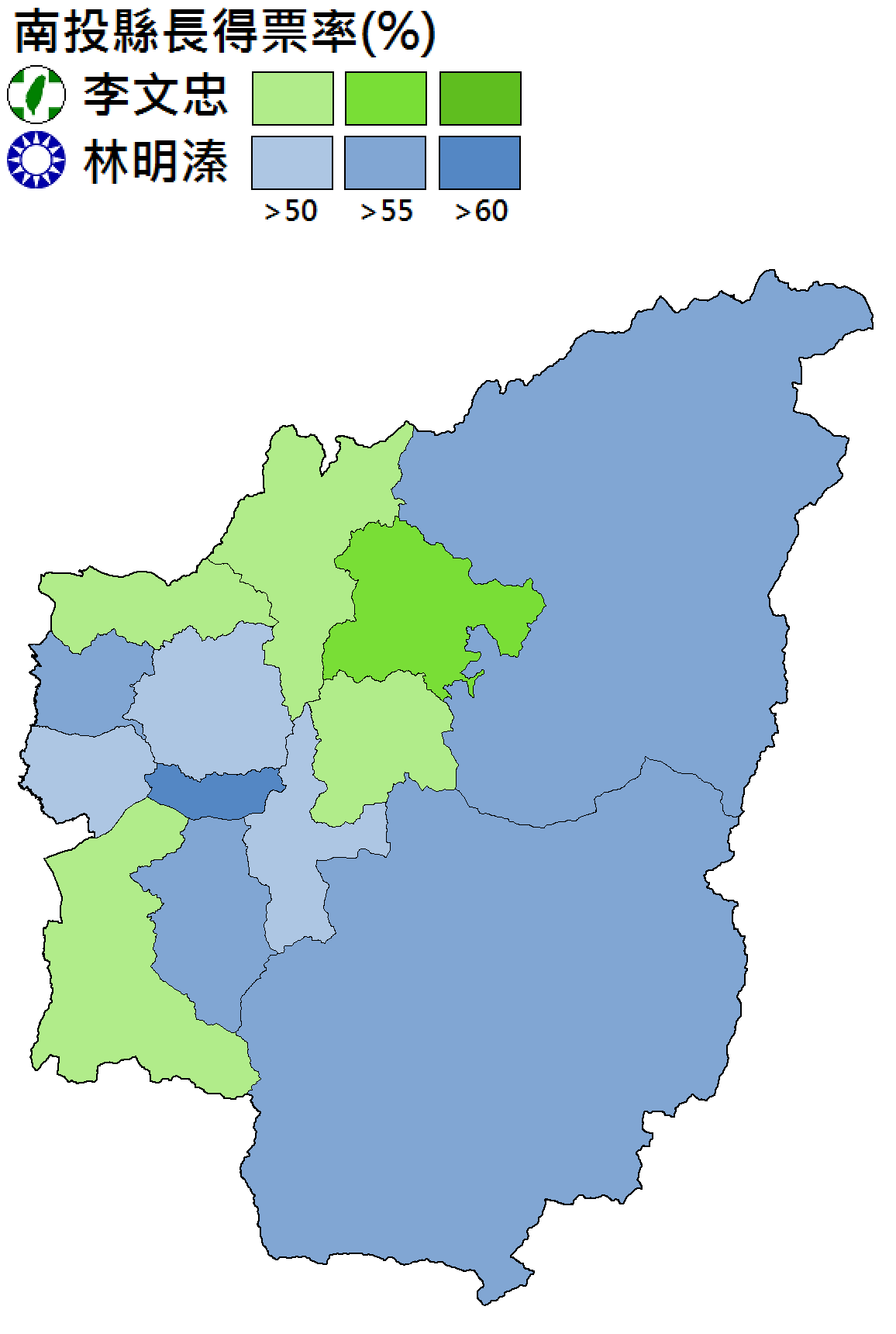 Nantou 2014